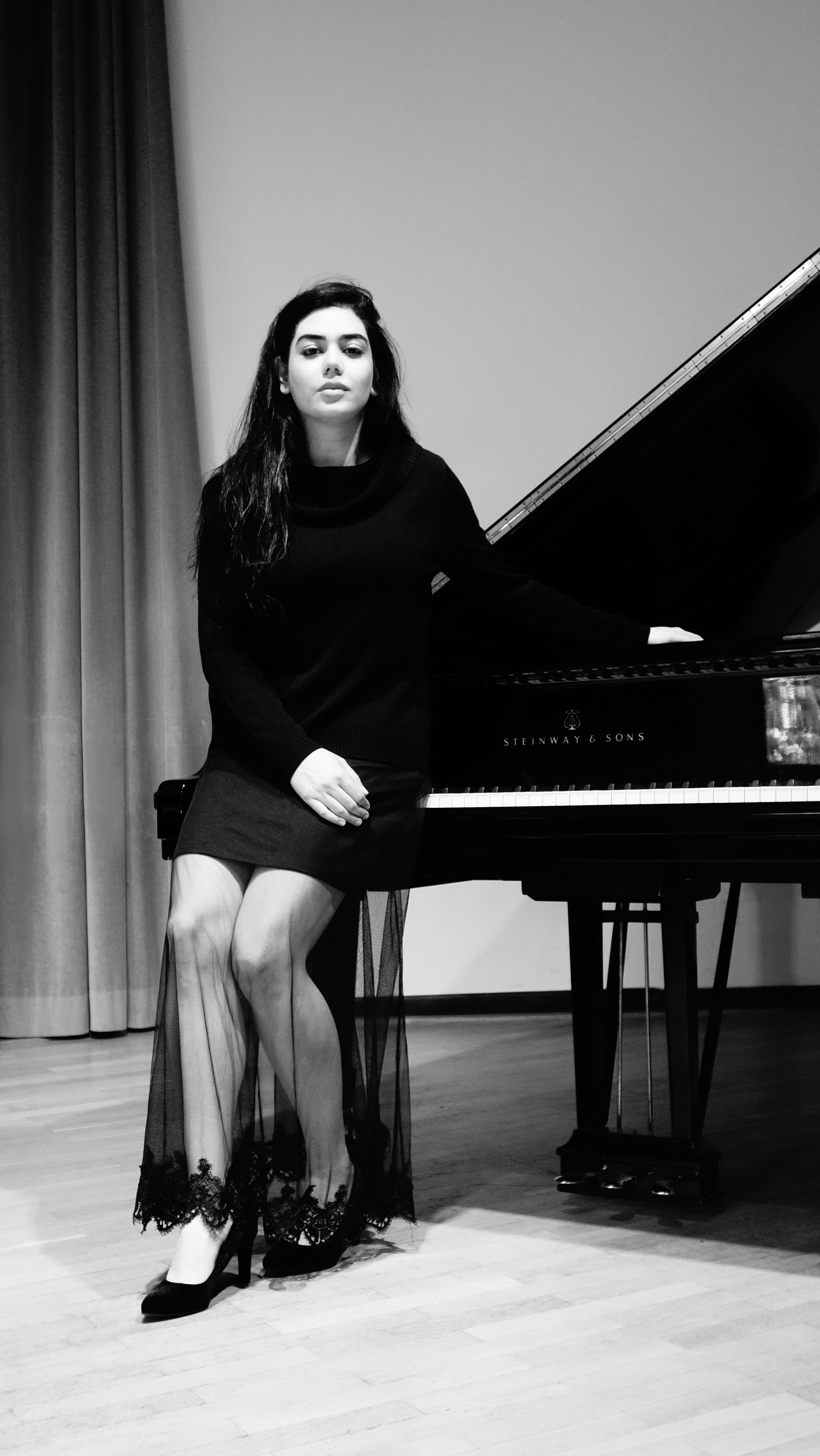 Portrait of the iranian pianist Maryam Mehraban in Hanover, Germany